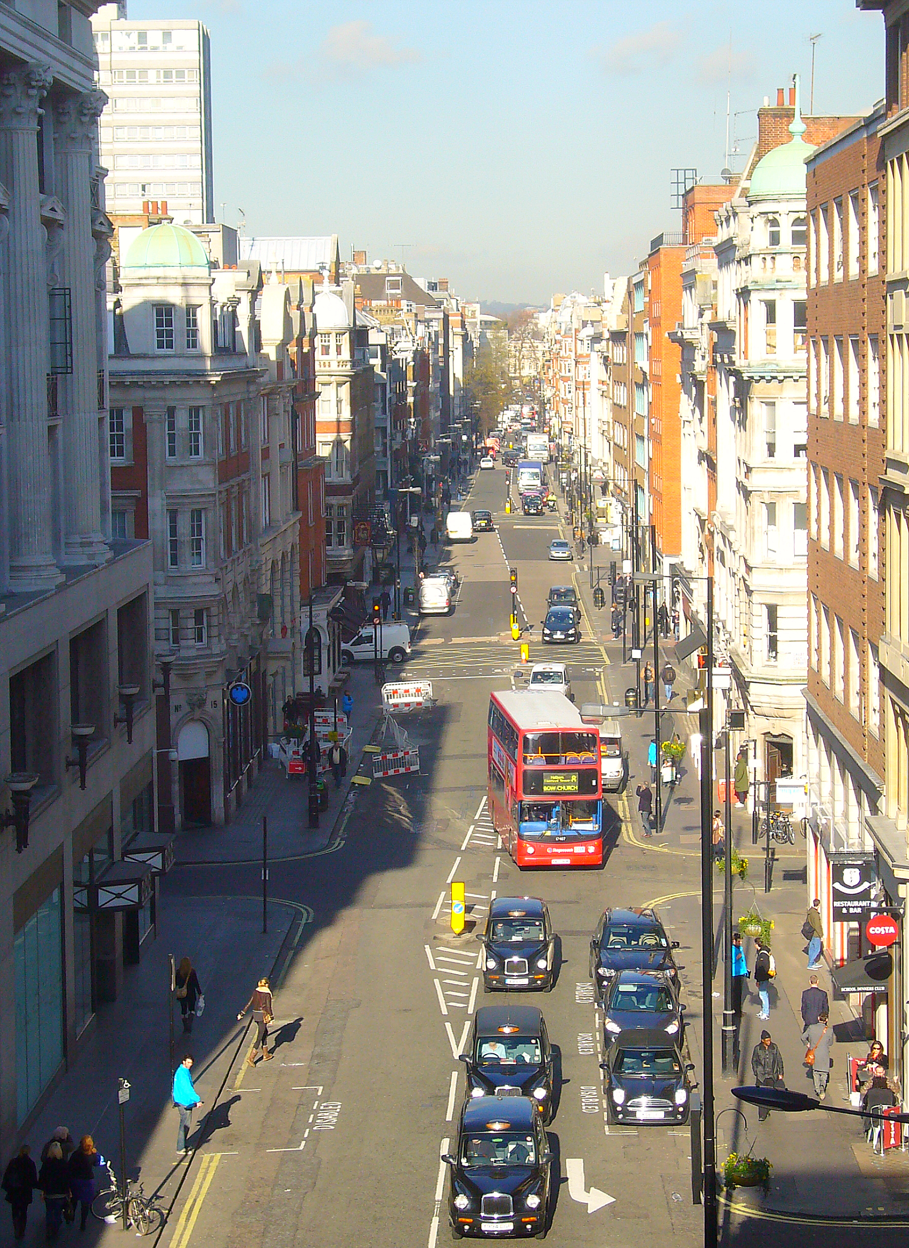 Photograph of Great Portland Street taken from third floor window of Oxford Street Store